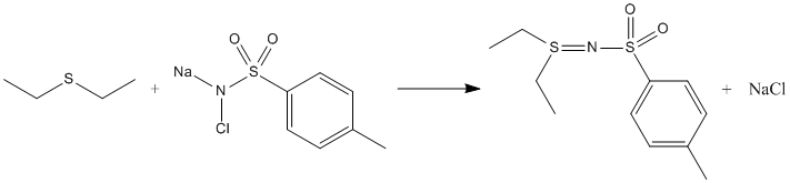 Nicolet and Willard synthesis